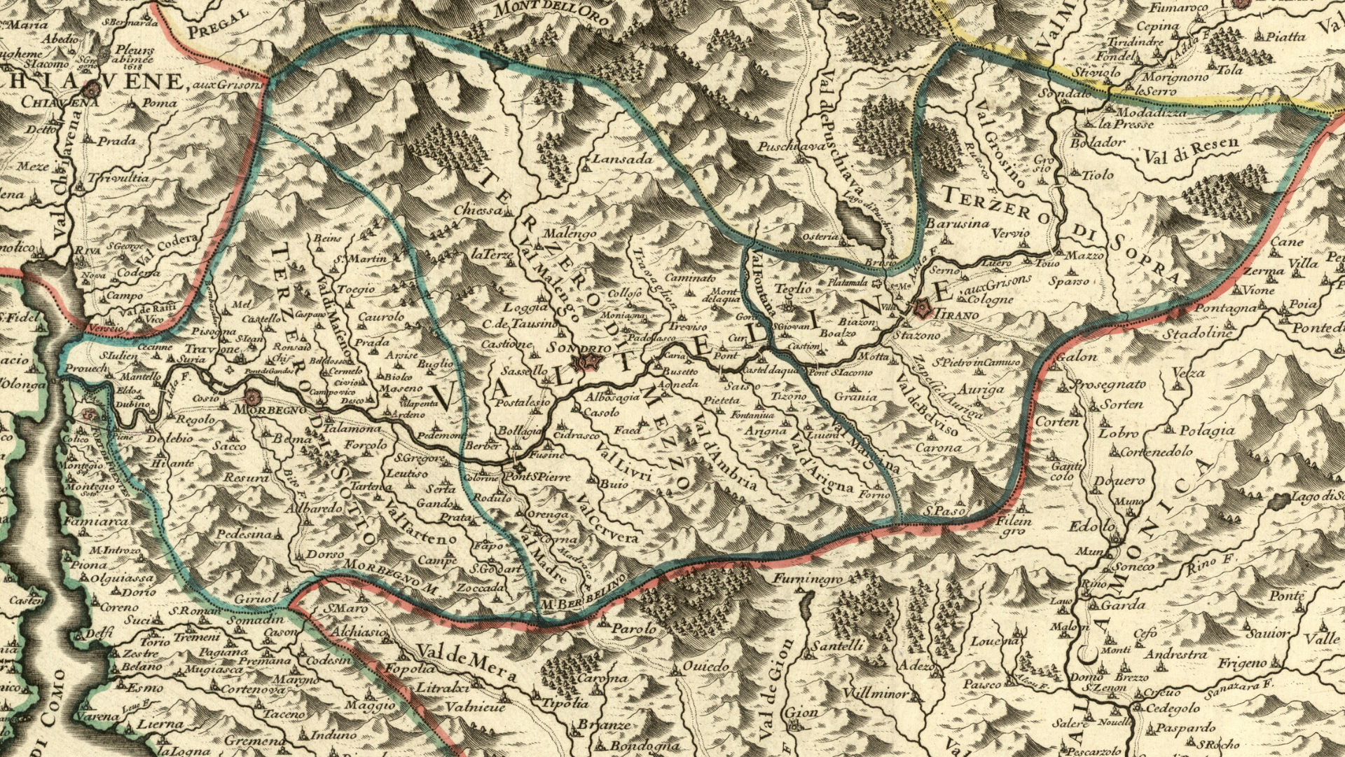 The region of the Valteline (Valtellina), Switzerland. Cropped from a map by French geographer and cartographer Jaillot titled Les Suisses Leurs Alliés et Leurs Sujets, published in 1717.